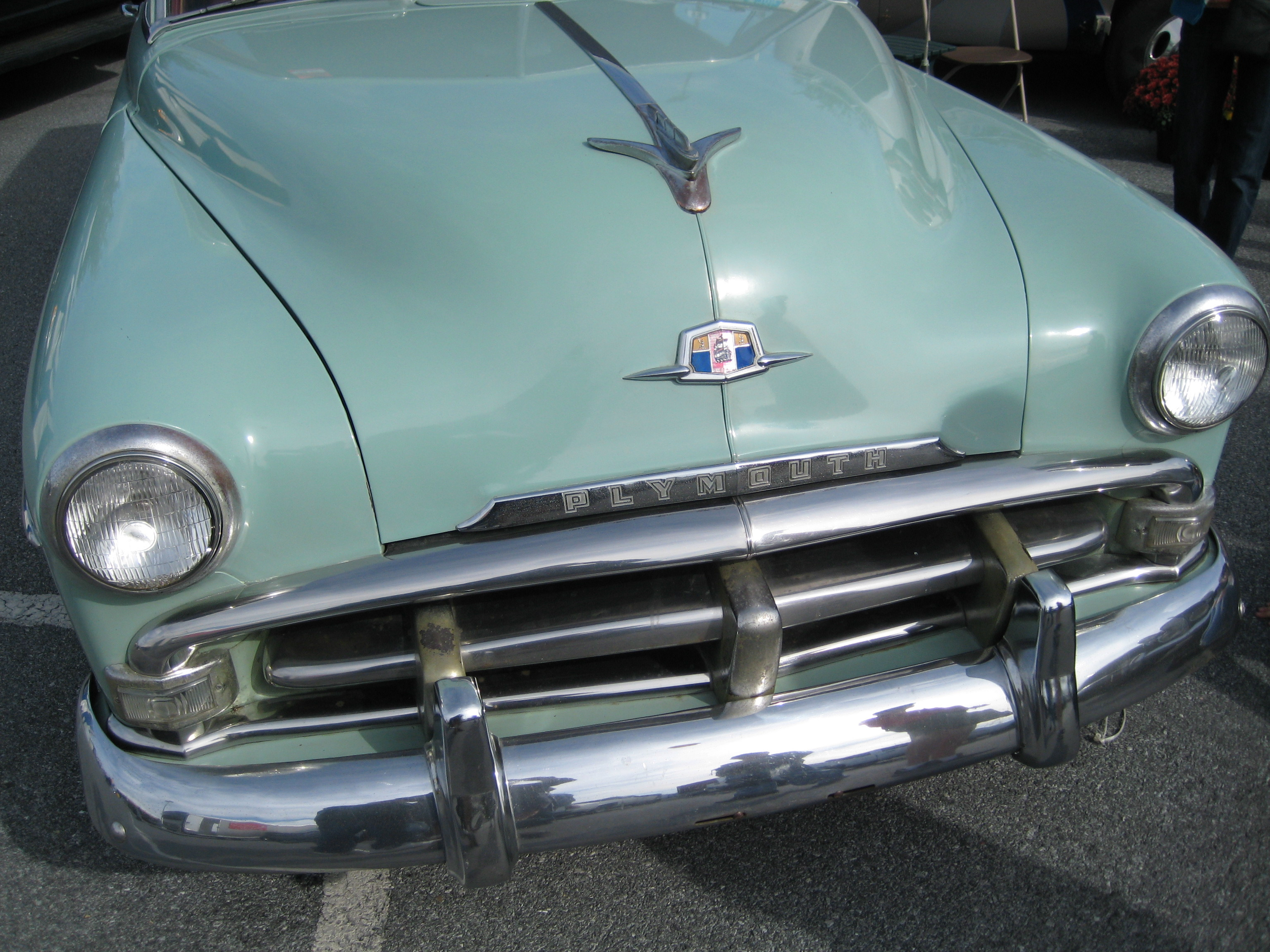 Seen in the flea market area at the AACA Fall Meet, Hershey, Pennsylvania, October 2009